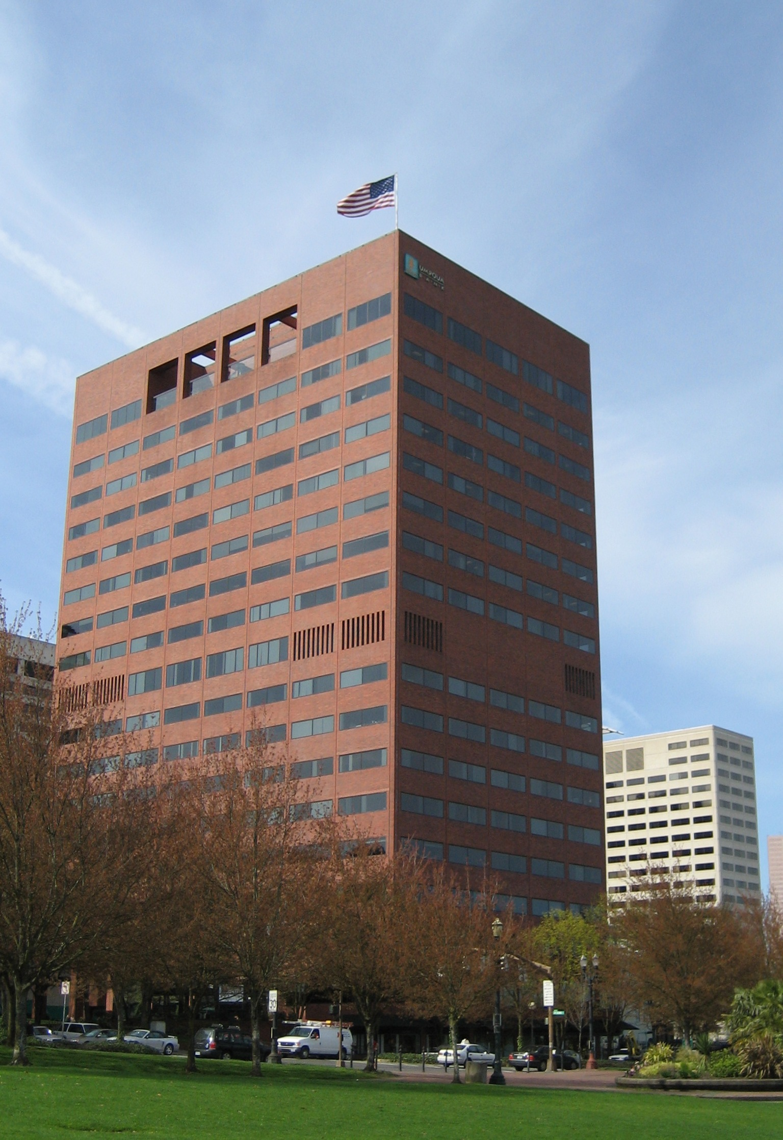 Umpqua Bank Plaza in Portland, headquarters of Umpqua Holdings Corporation and Umpqua Bank. . Formerly owned by Benj. Franklin Savings and Loan.